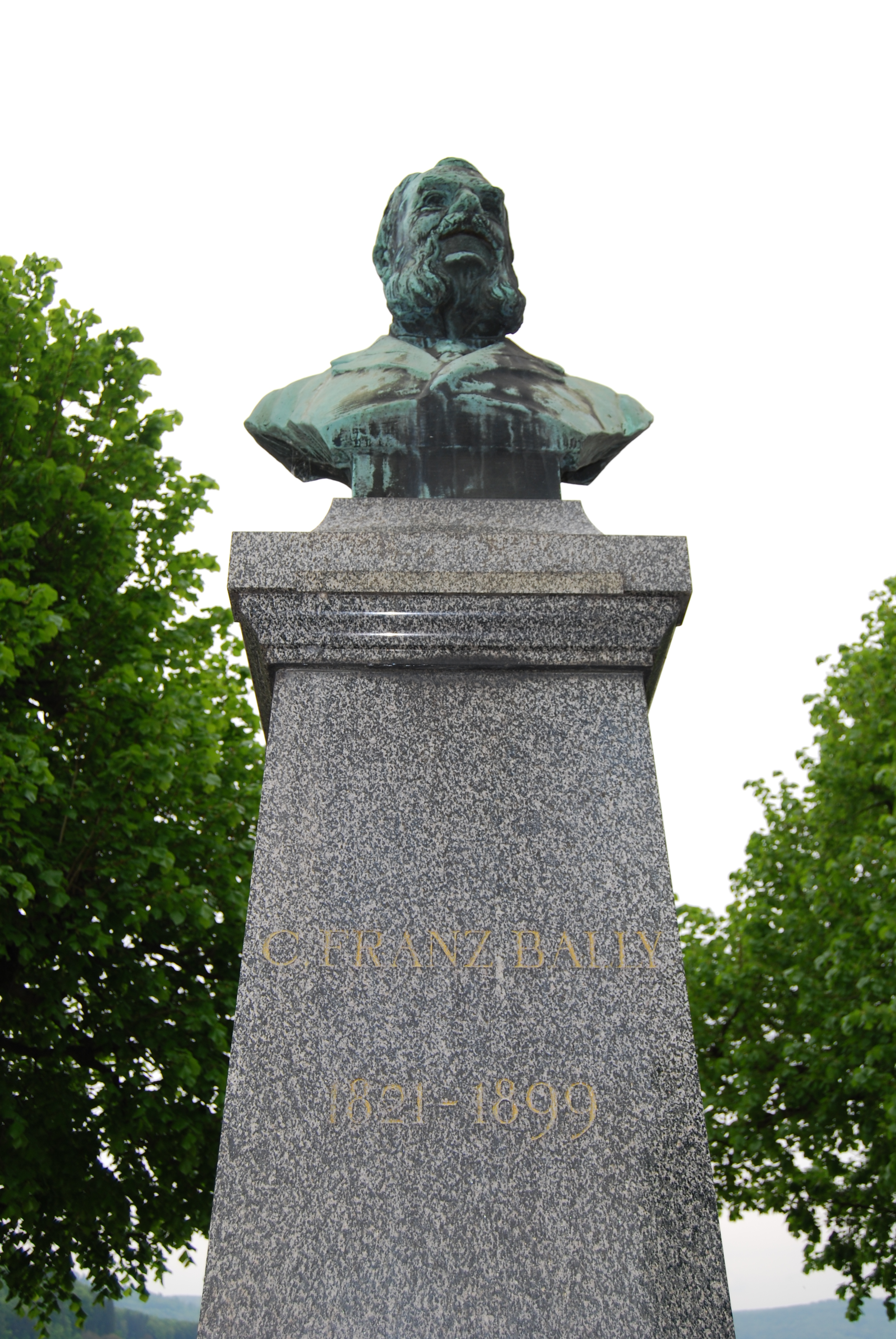 Carl Franz Bally monument at Schönenwerd, canton of Solothurn, Switzerland